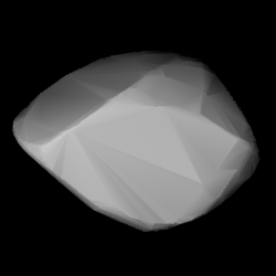 3D convex shape model of 1002 Olbersia, computed using light curve inversion techniques. J. Hanuš, J. Ďurech, M. Brož, B. D. Warner (June 2011). "A study of asteroid pole-latitude distribution based on an extended set of shape models derived by the lightcurve inversion method". Astronomy and Astrophysics 530: A134. ISSN 0004-6361. arXiv